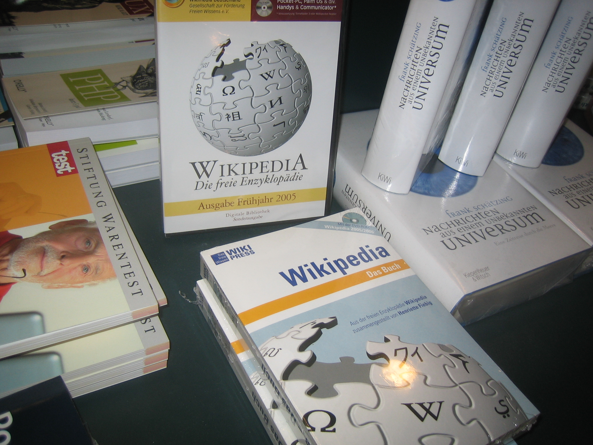 The German edition is available in print and on DVD. Amazing!